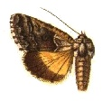 From Plate CCXXXVI